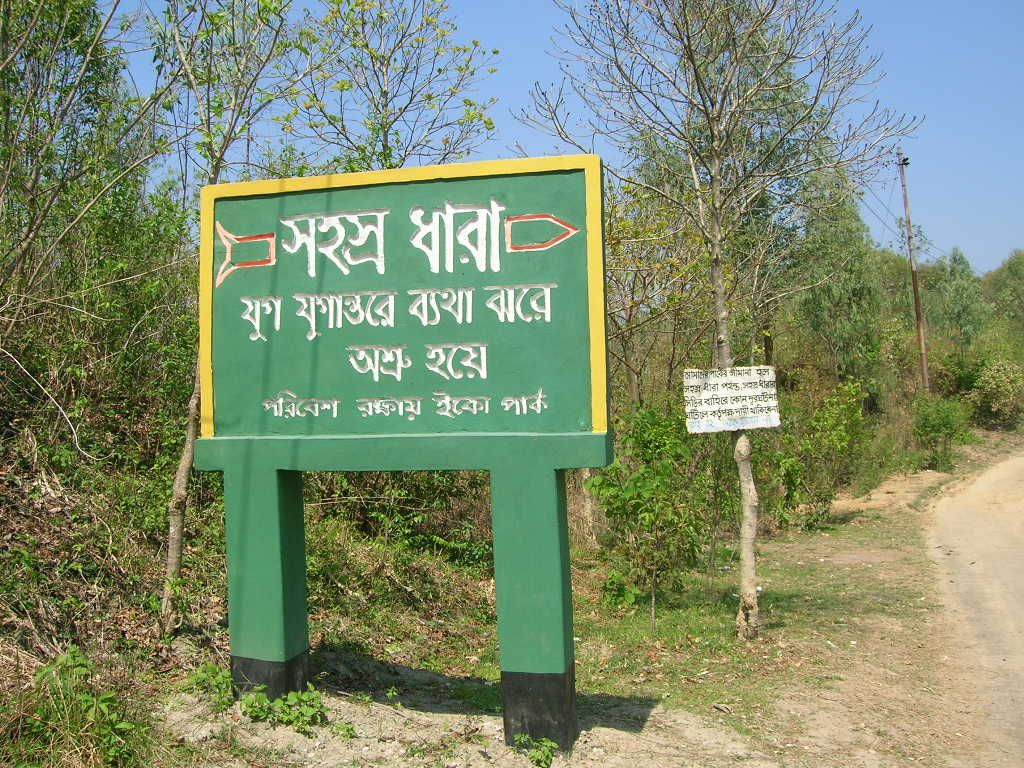 Picture of Sitakunda